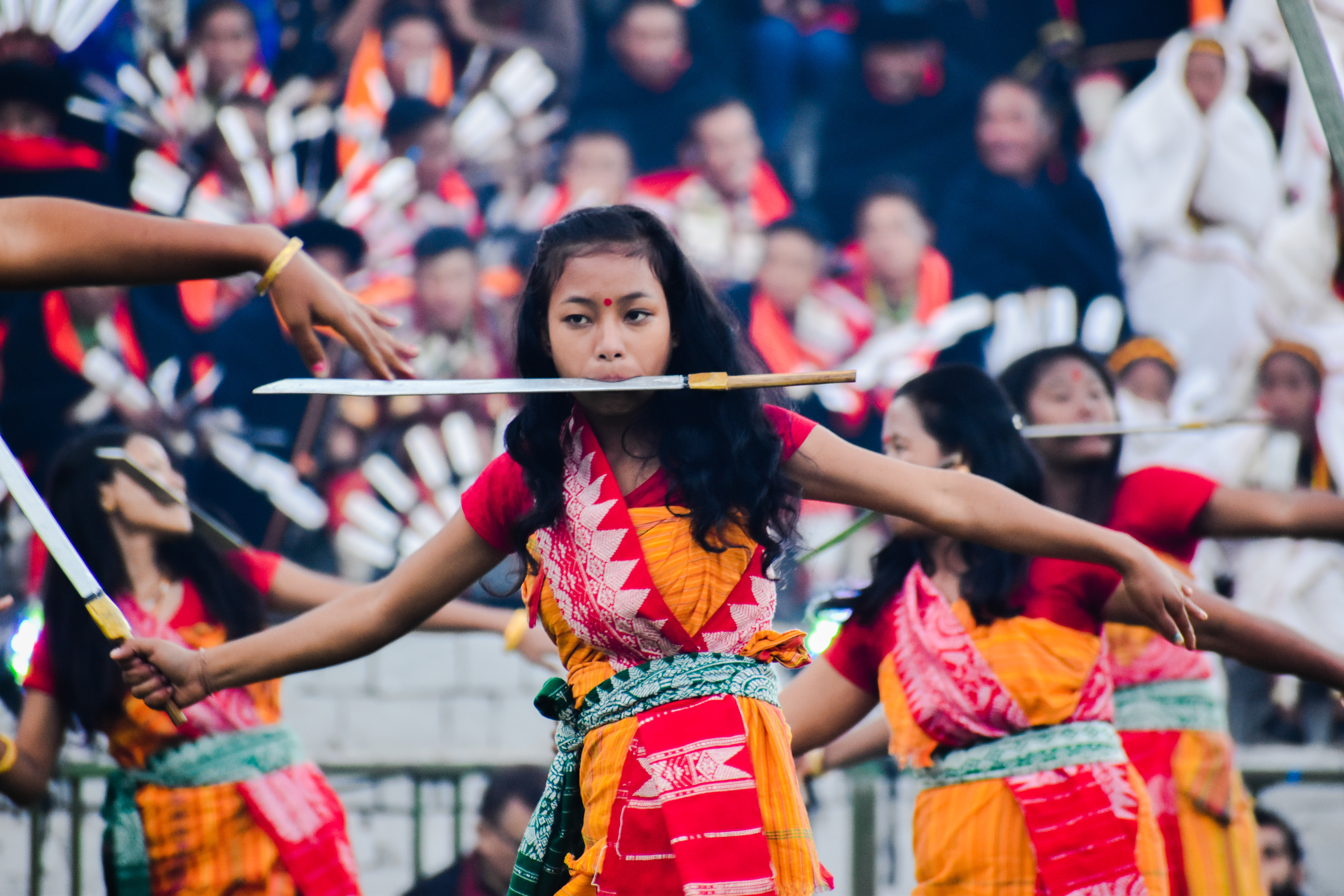 The picture was clicked at Kisama Heritage Village at Hornbill Festival 2019. It represents the participants performing their folk dance holding their tribal weapons. This photo has been taken in the country: India